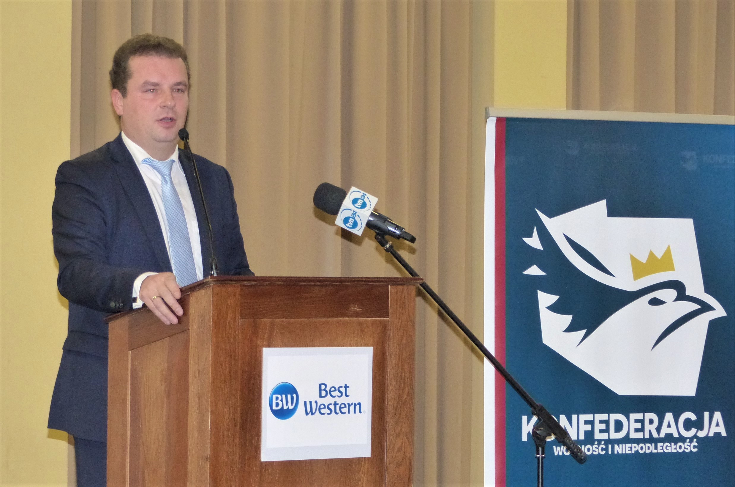 Jacek Wilk - Polish politician, lawyer and economist, Member of the Sejm of the Republic of Poland of the 8th term. Regional presidential primaries of the Confederation of Freedom and Independence - Kielce, 14 December 2019